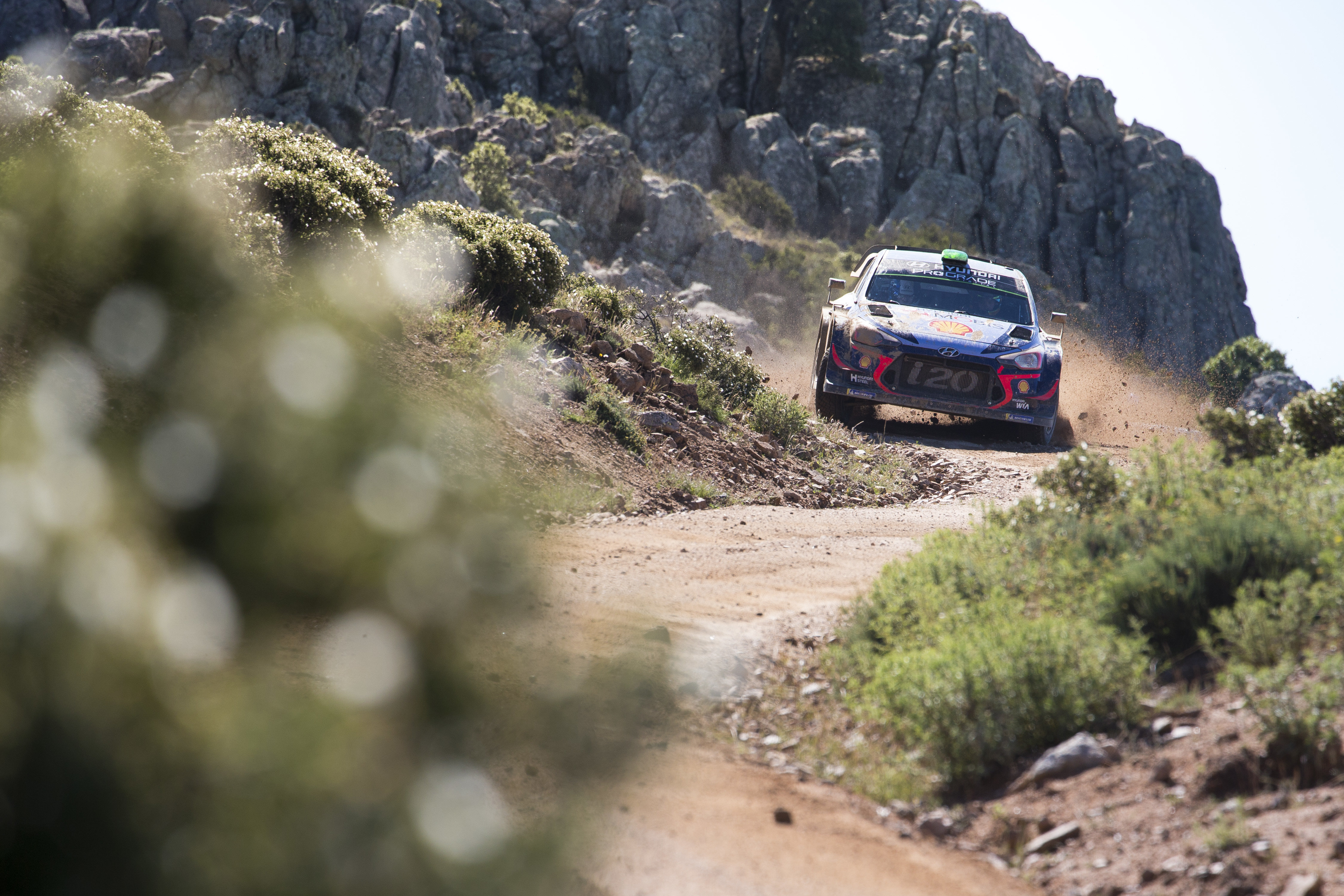 2018 FIA World Rally Championship Round 07, Rally Italia Sardegna 07-10 June 2018 Photographer: Helena El Mokni Worldwide copyright: Hyundai Motorsport GmbH